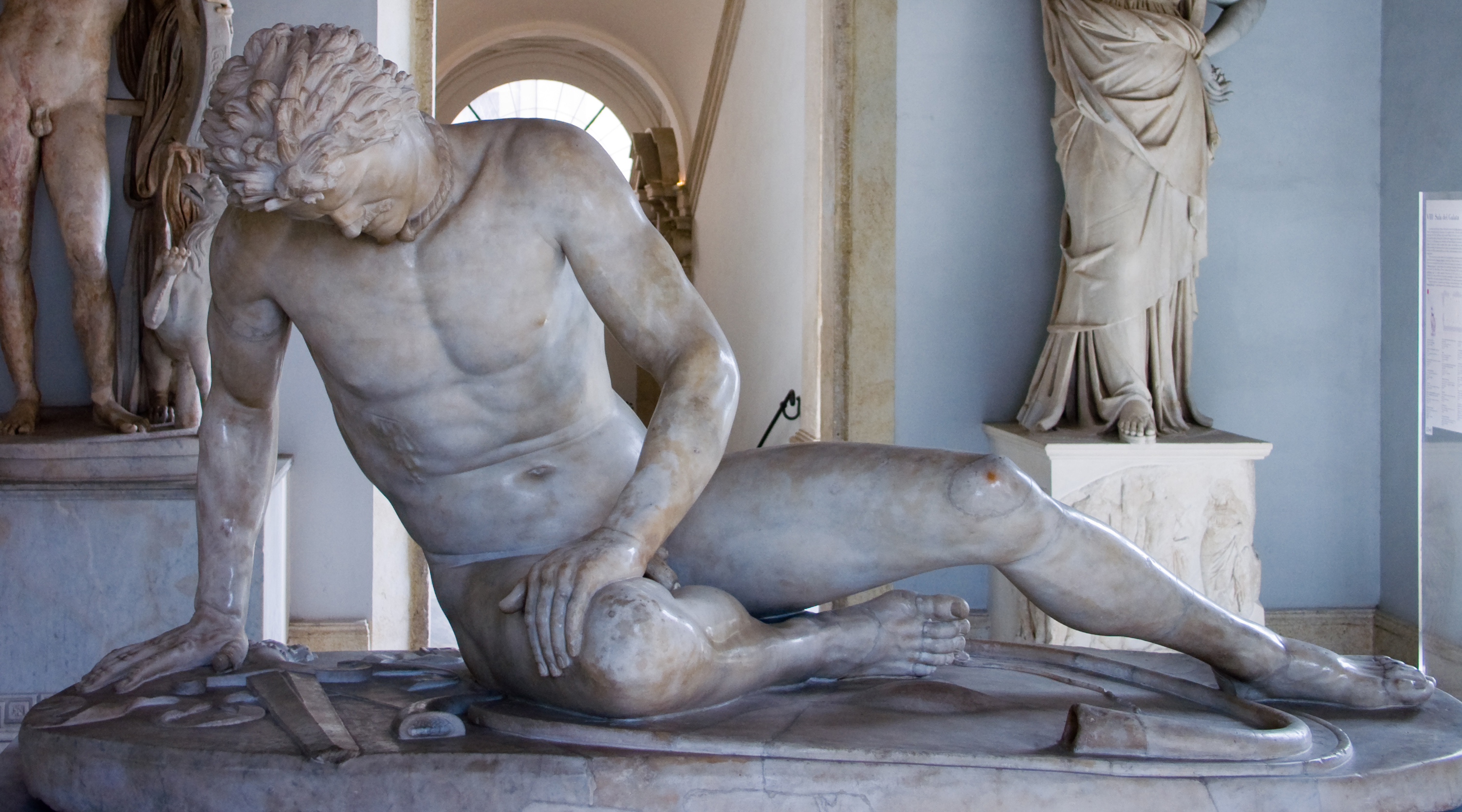 The Dying Gaul is one of the best-known and most important works in the Capitoline Museums. It is a replica of one of the sculptures in the ex-voto group dedicated to Pergamon by Attalus I to commemorate the victories over the Galatians in the 3rd and 2nd centuries BC. The identity of the author of the original is unknown, but it has been suggested that Epigonus, the court sculptor of the Attalid dynasty of Pergamon, may have been its creator.